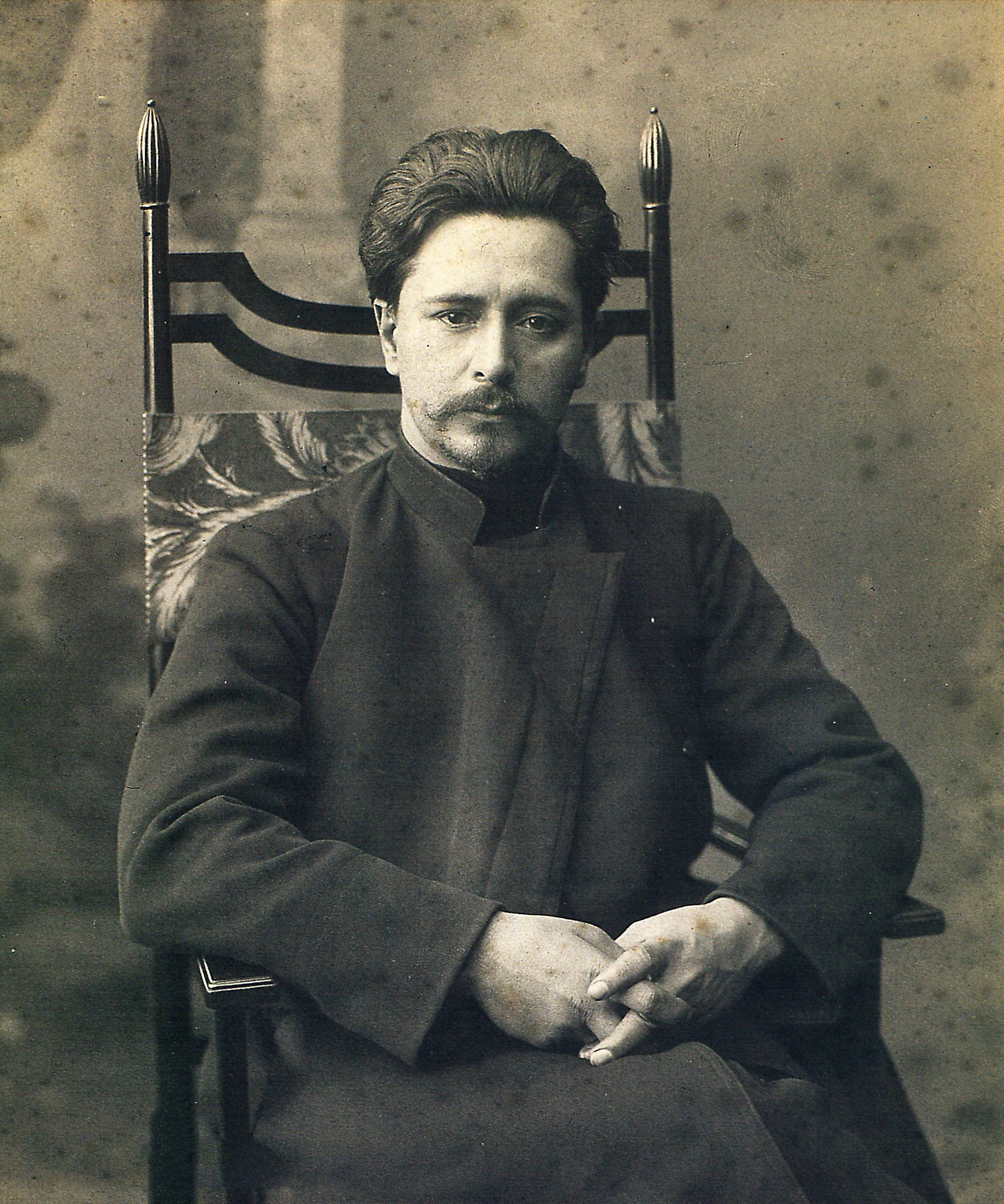 Leonid Andreyev sitting on a chair II